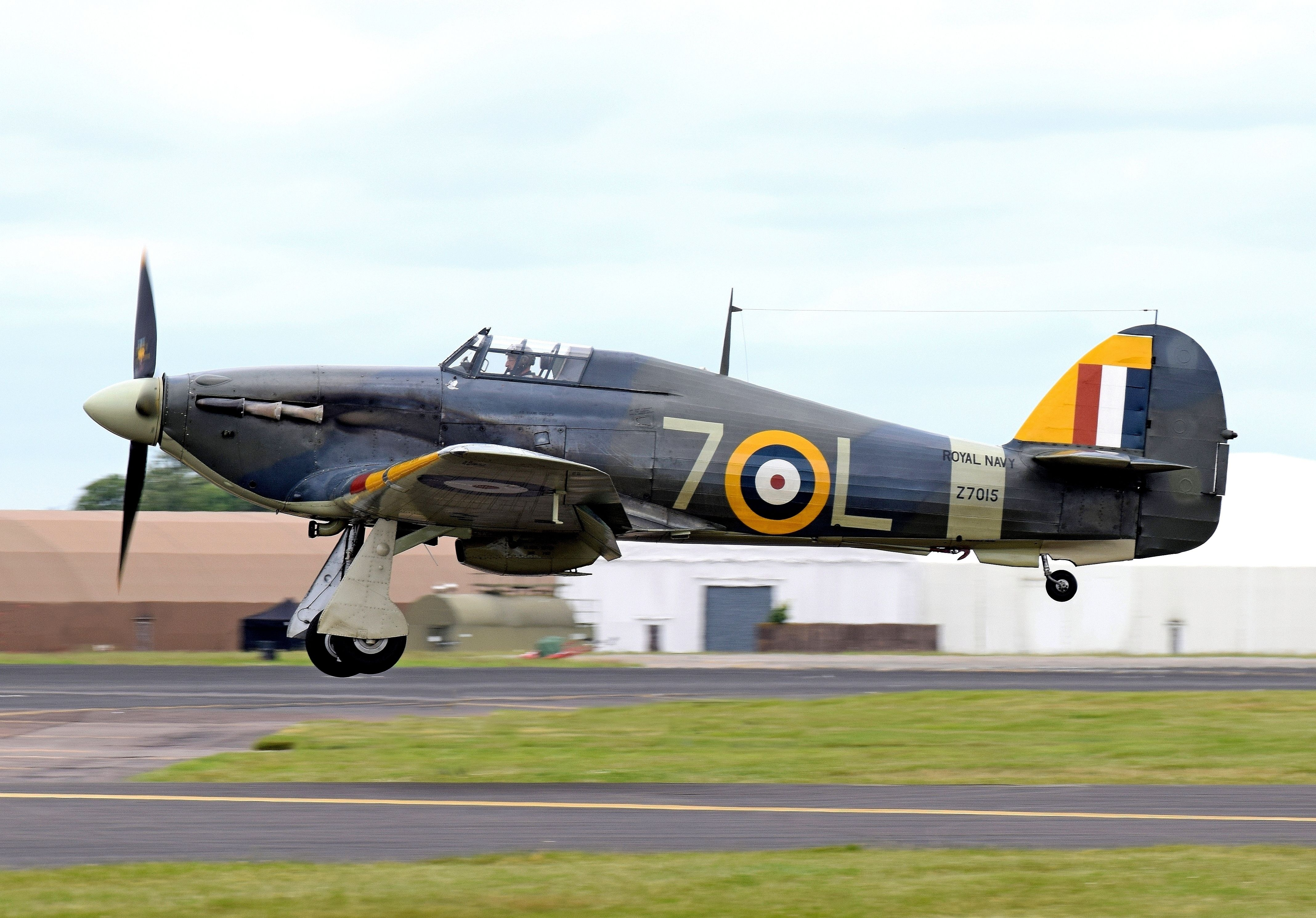 Privately-owned Hawker Sea Hurricane Mk.1b (Royal Navy code 7-L and Z7015, civilian code G-BKTH) arrives at the 2016 Royal International Air Tattoo, RAF Fairford, England. Built in 1939 and restored in 1995, the aircraft is displayed at Old Warden, England, as part of the Shuttleworth Collection. It is in the Fleet Air Arm colours of 880 squadron and is the only airworthy Sea Hurricane Mk.Ib in the world (as at August 2016). The Sea Hurricane 1b was a modification of the Hurricane Mk.1 with the addition of catapult spools and an arrester hook.